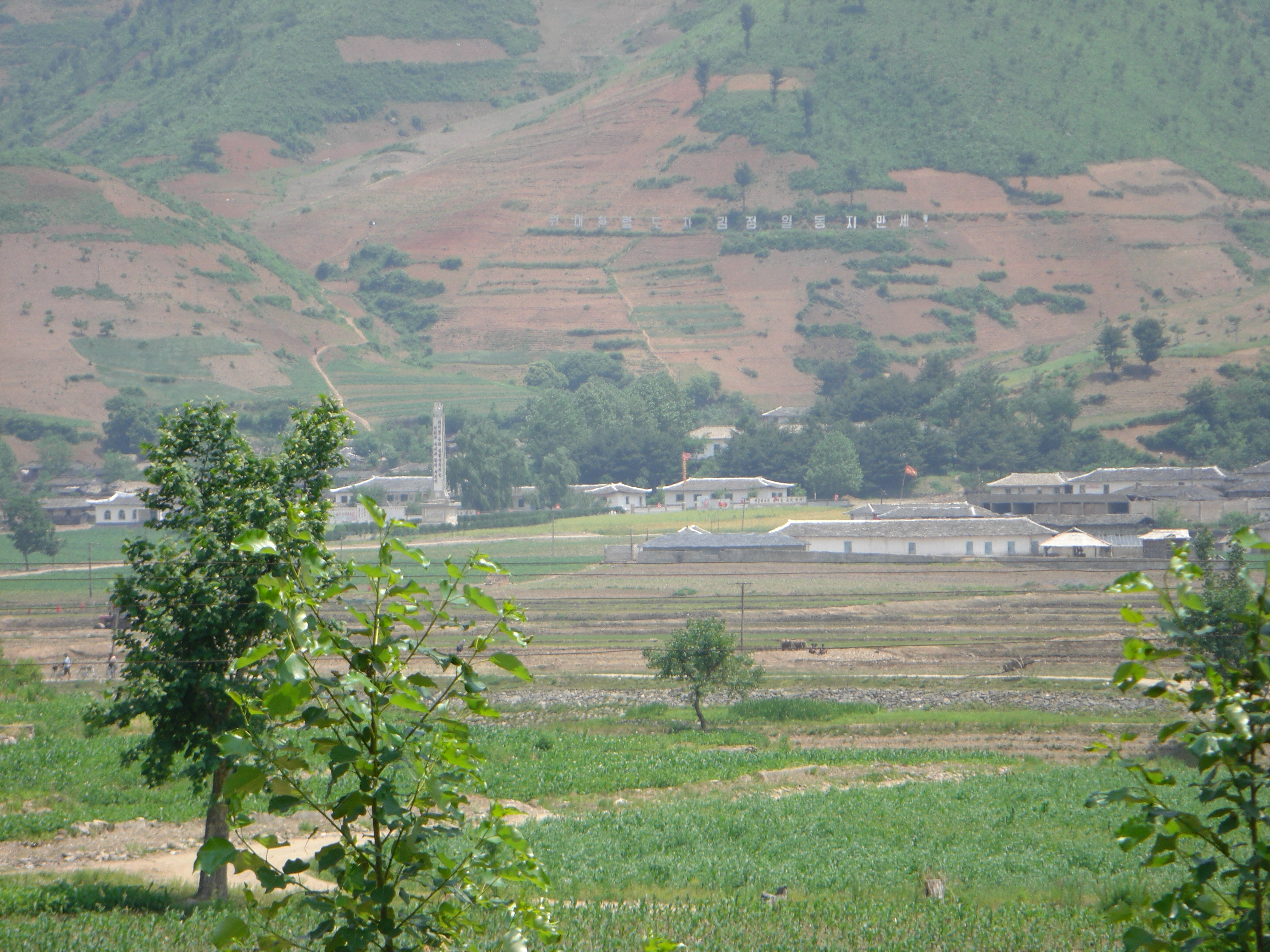 Migok Farm. Sariwŏn, North Korea.